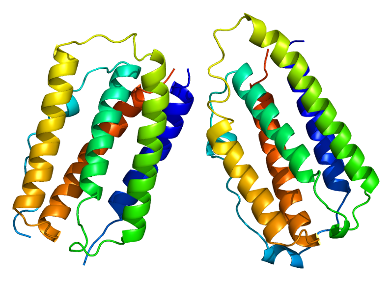 Structure of the IFNB1 protein. Based on PyMOL rendering of PDB 1au1.